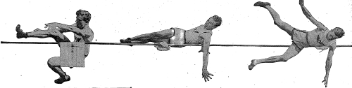 western roll, High Jump stile, from a newspaper of 1912